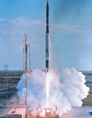 Vanguard rocket (U.S. Navy). Launched by the U.S. Navy 1957-59.